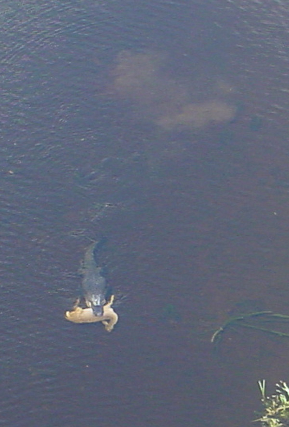 From the FWS website: The photographs of this deer-eating alligator were taken from the air by Terri Jenkins, a U.S. Fish and Wildlife Service District Fire Management Officer. She was preparing to ignite a prescribed fire at Harris Neck National Wildlife Refuge, about 40 miles south of Savannah, Georgia, on March 4, 2004. “One advantage of fire work is you get to see that 12-14 footers are common from Santee National Wildlife Refuge in South Carolina to Coastal South Carolina to Georgia’s coast,” said Jenkins. “It looks like the alligator population is doing extremely well.” This one was at least 12-13 feet long. Jenkins said that some bull alligators have a 35 inch girth.